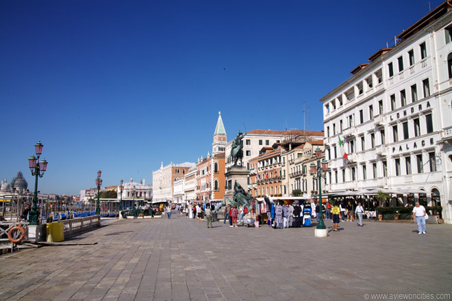 the stall